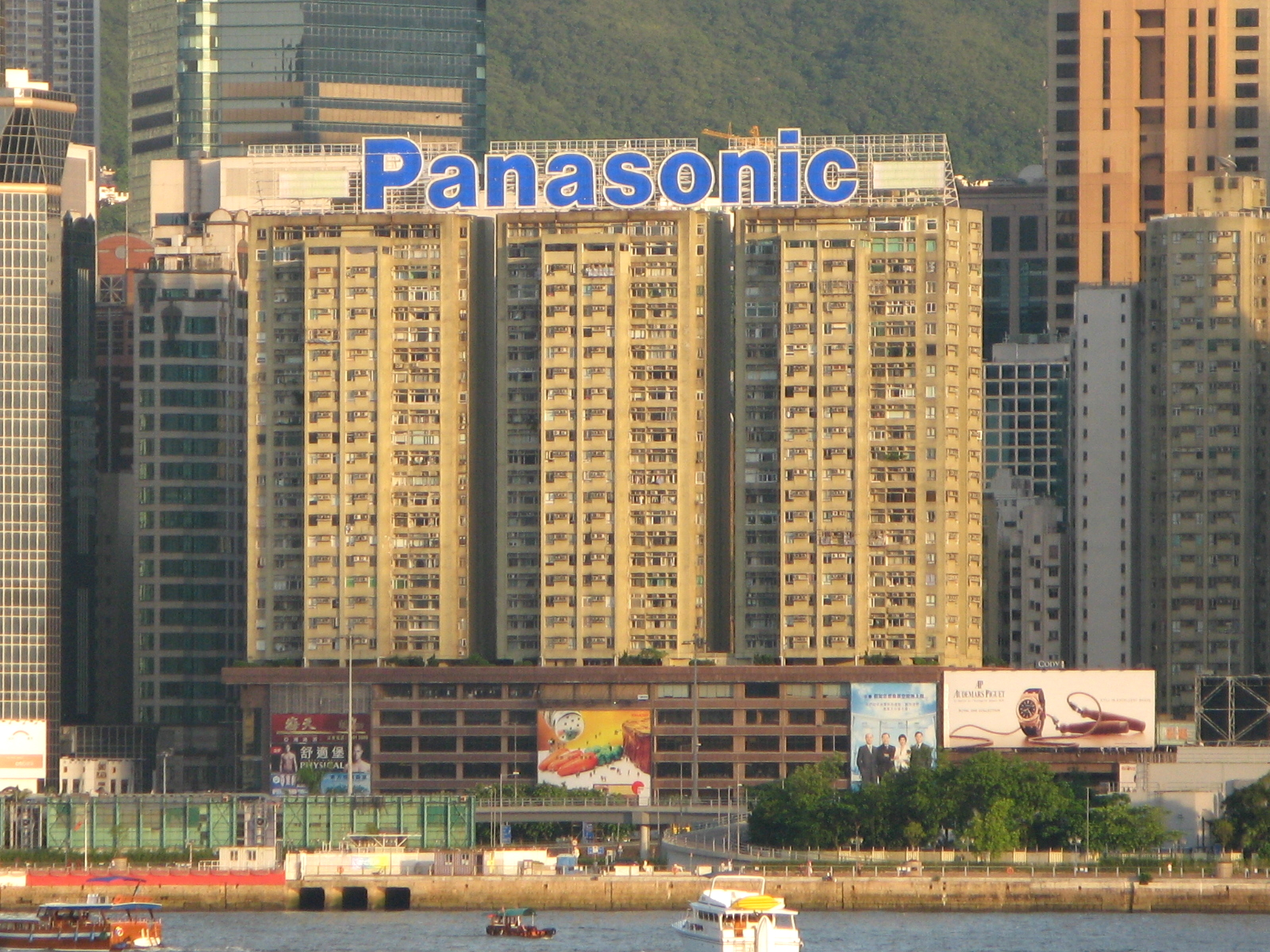 Elizabeth House